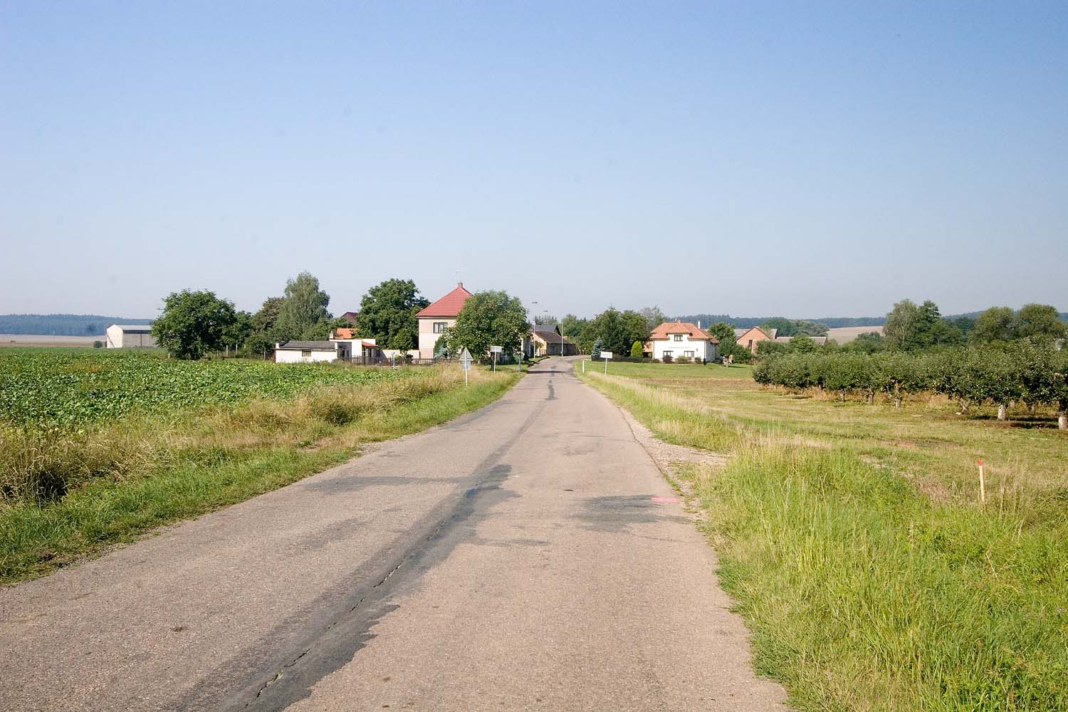 Radíkovice, Hradec Králové District, as seen from foad to Těchlovice